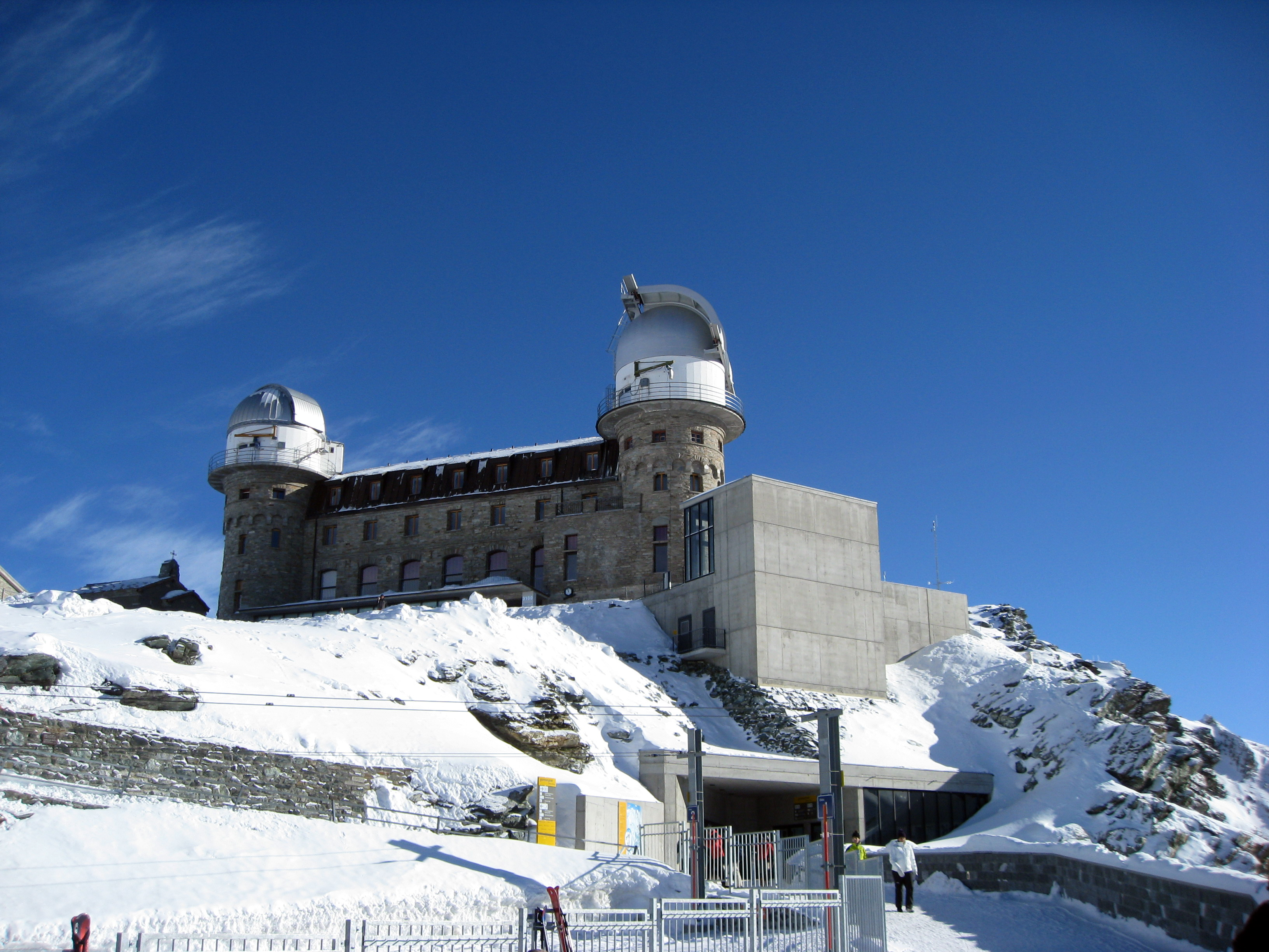 The Gornergrat Observatory.